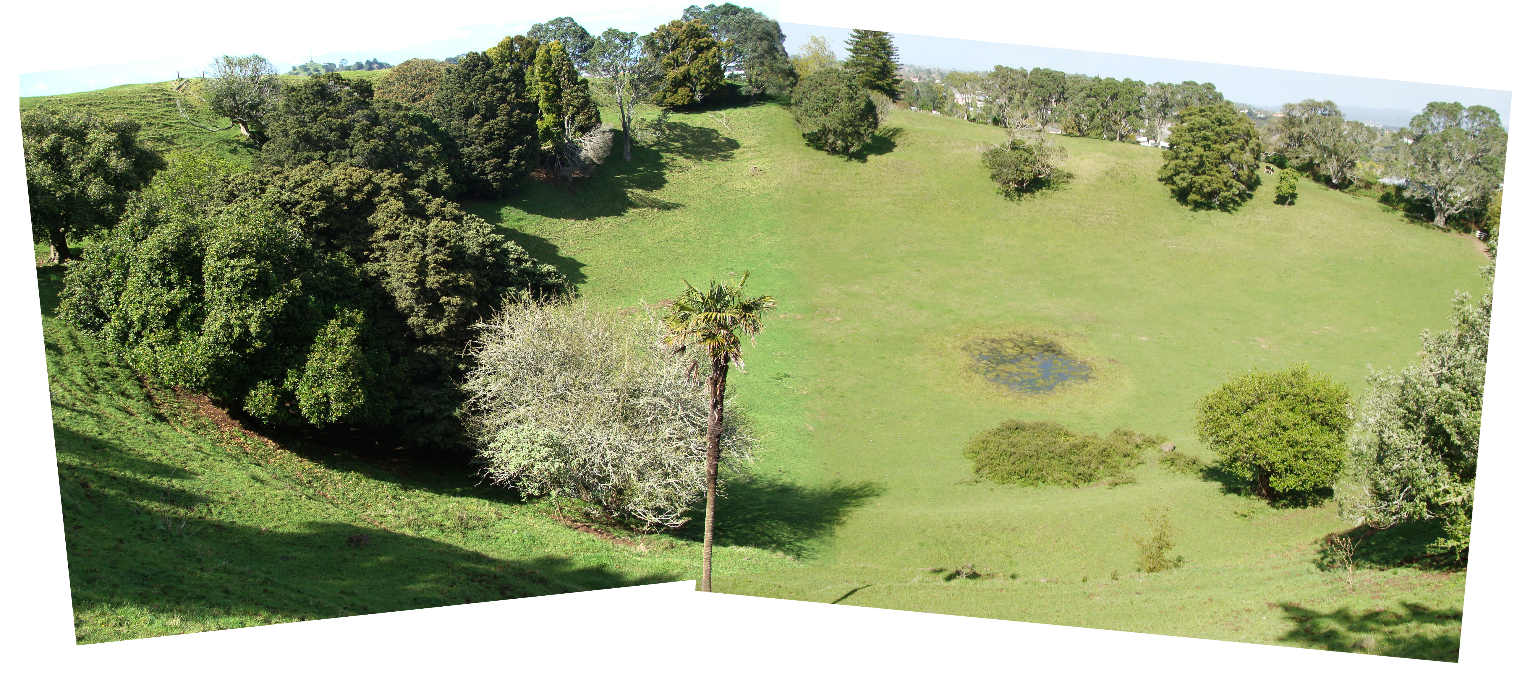 Crater of Mount Saint John volcano, Auckland, New Zealand.